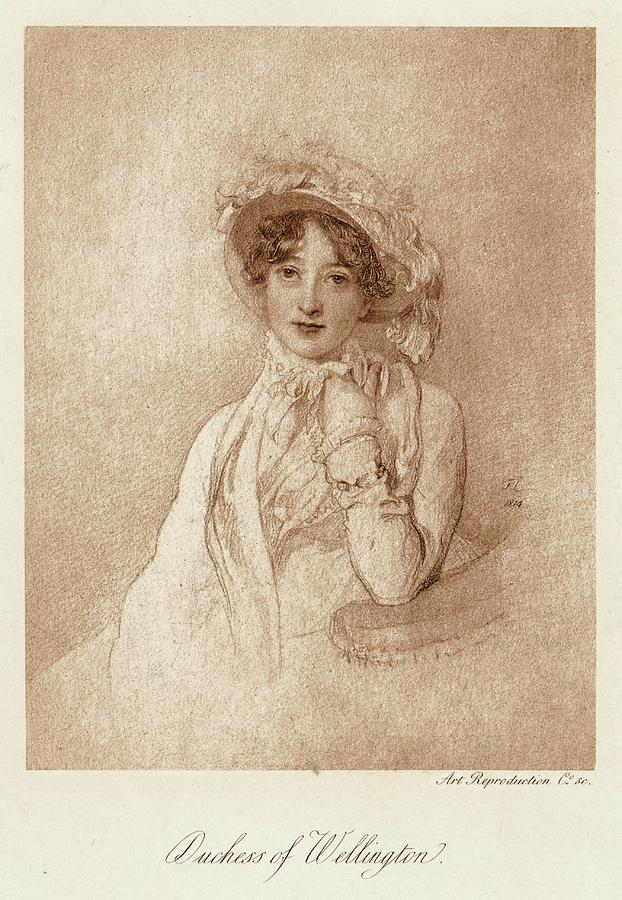 Catherine Wellesley, Duchess of Wellington by Thomas Lawrence